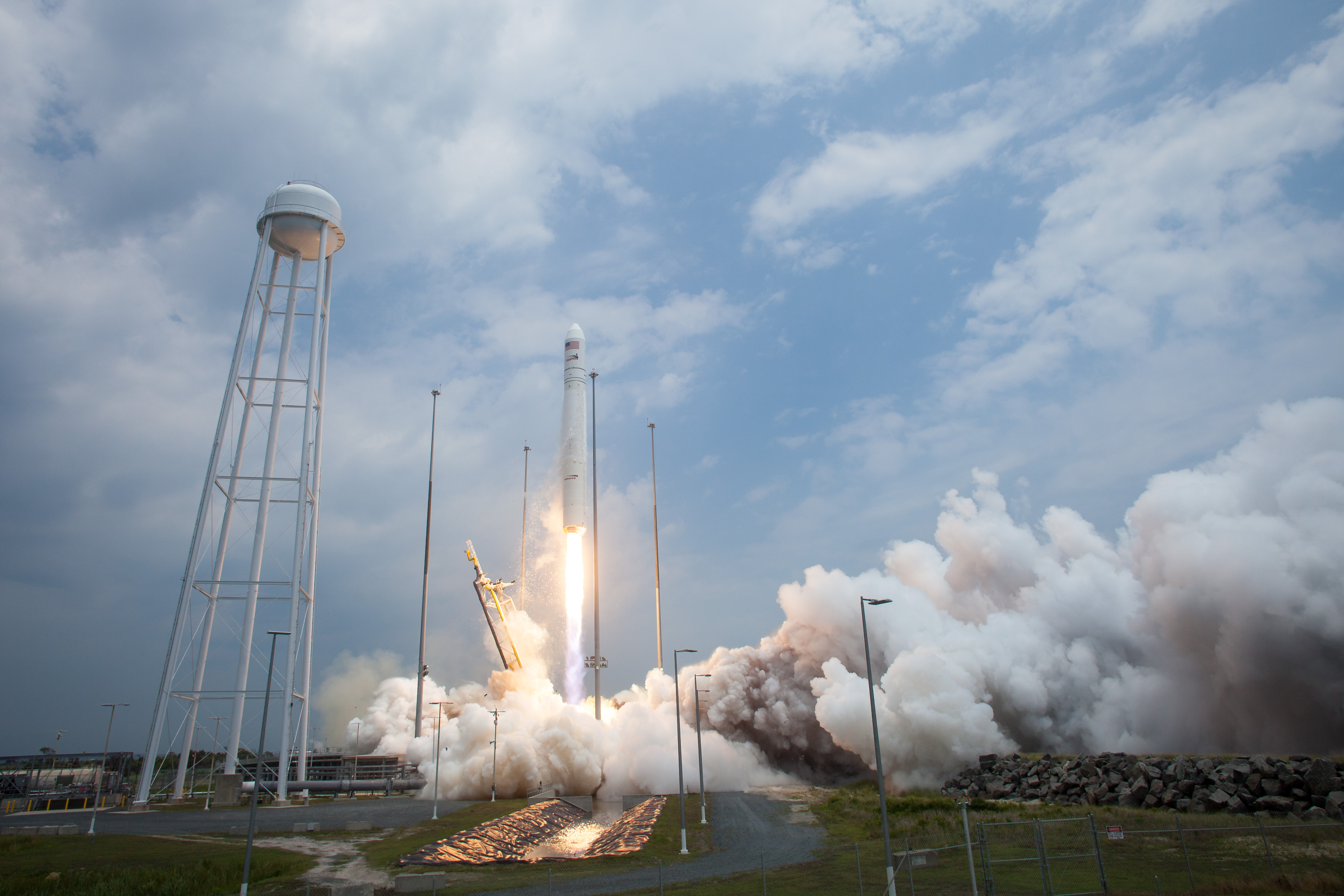 The Orbital Sciences Corporation Antares rocket launches from Pad-0A with the Cygnus spacecraft onboard, Sunday, July 13, 2014, at NASA's Wallops Flight Facility in Virginia. The Cygnus spacecraft is filled with over 3,000 pounds of supplies for the International Space Station, including science experiments, experiment hardware, spare parts, and crew provisions. The Orbital-2 mission is Orbital Sciences' second contracted cargo delivery flight to the space station for NASA.